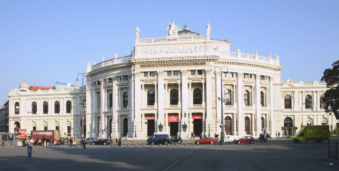 Austria, Vienna, Burgtheater